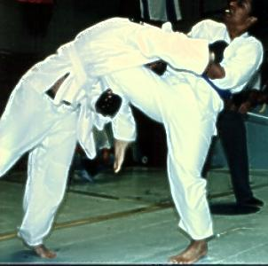 Author: Duane Hamacher (c) 2001